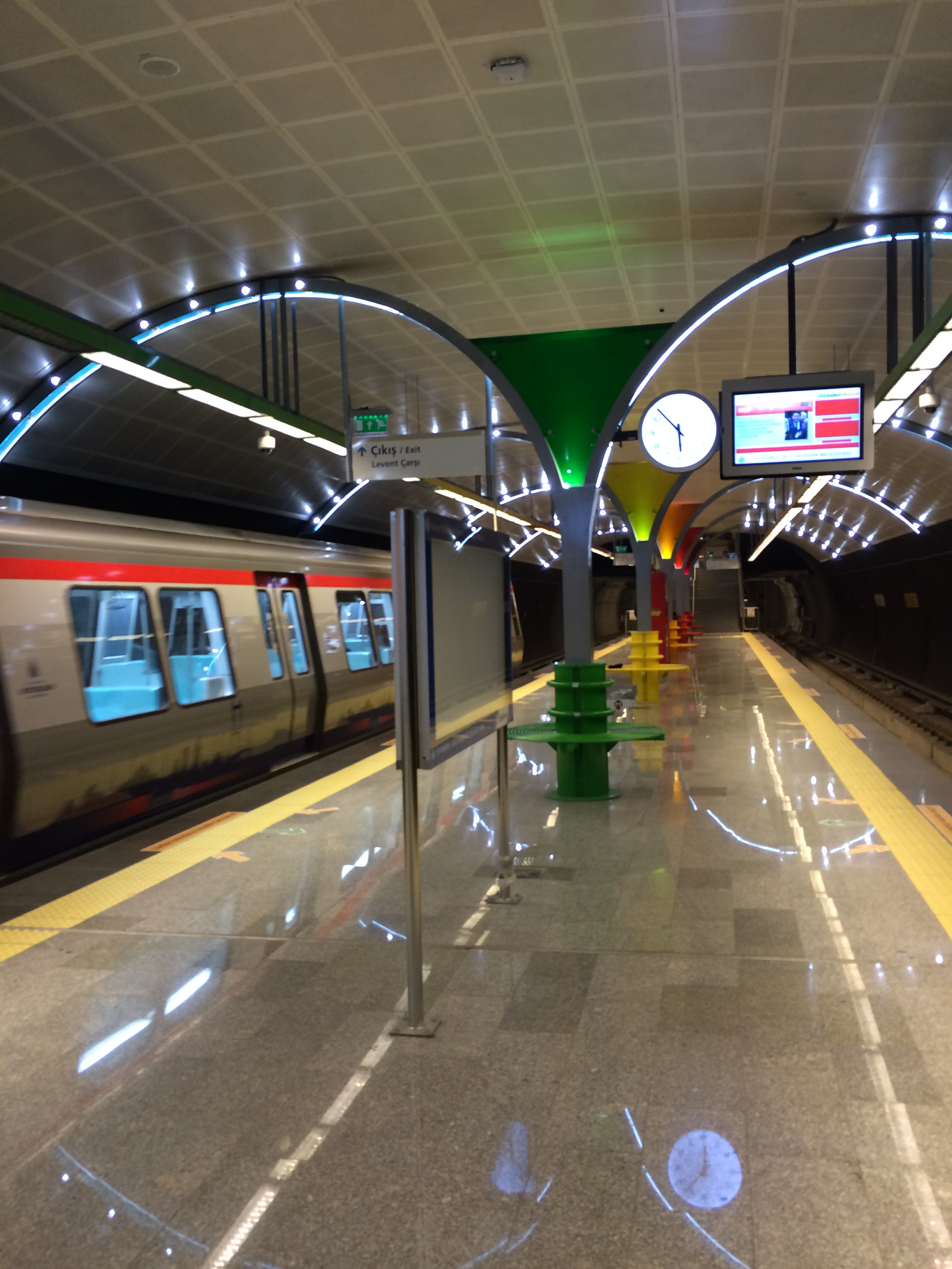 İstanbul Metro, M6 Levent – Hisarüstü/Boğaziçi Üniversitesi line, Levent station